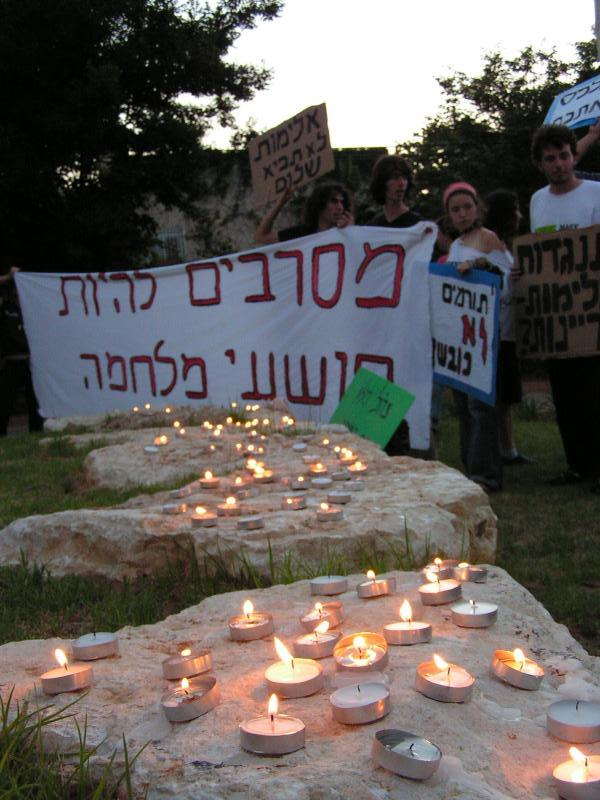 demonstration of israeli refusniks infront Dan Haluz the head of IDF. "refuse to be war criminal"